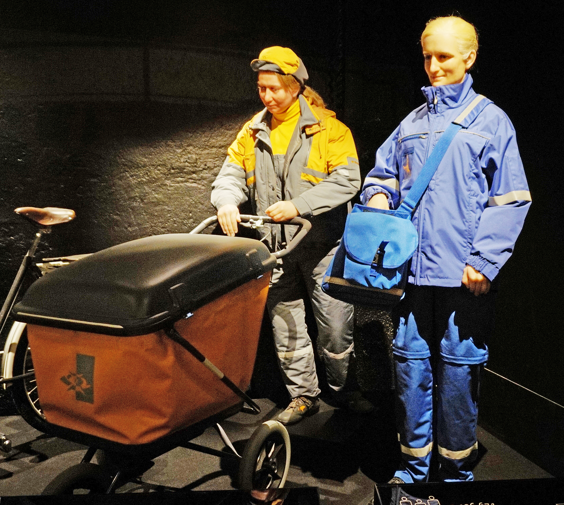 Messengers in Postal Museum. Vapriikki Museum Center, Tampere.